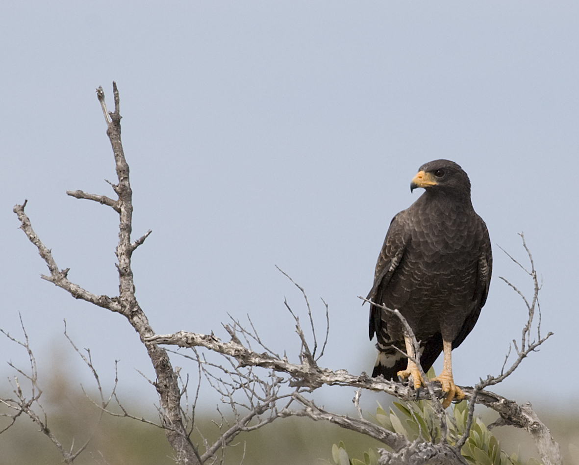 A Cuban Black Hawk in Camagüey Province, Cuba.